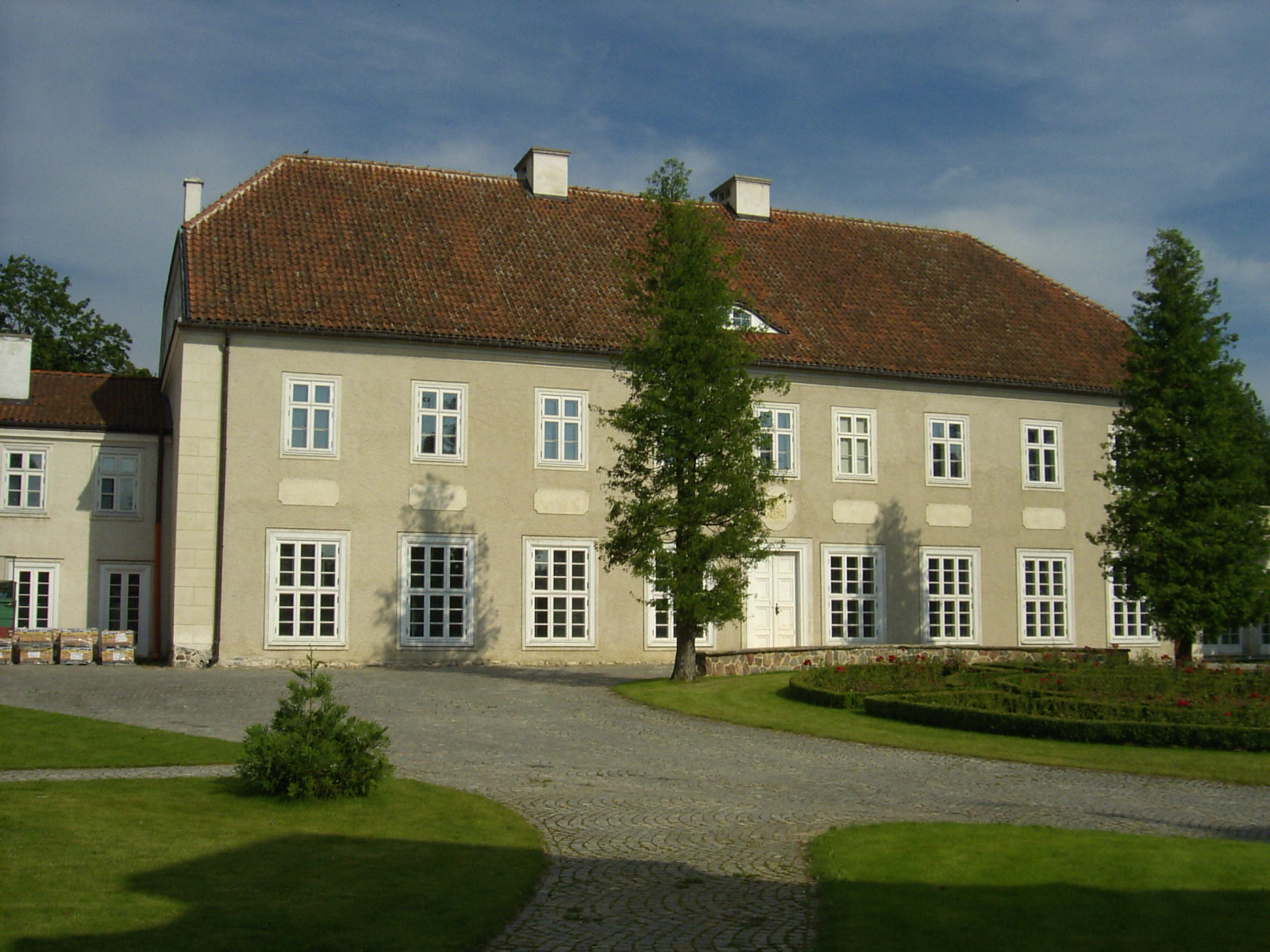 Palace in Galiny, eastern wing (main), western facade